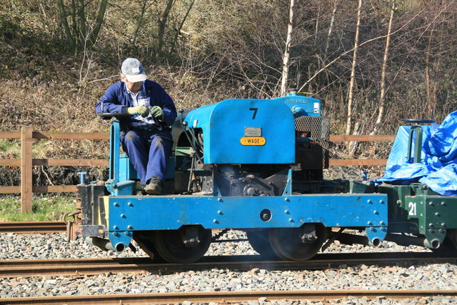 Apedale Valley Light Railway - blue Simplex. This railway is a preserved industrial narrow gauge railway collection operated by the Moseley Railway Trust. Although not open, it was gearing up for the new season and the three of us were made most welcome. The locomotive was built by Motor Rail Ltd as No. 8663 of 1941 and is a 4WDM, 20/28HP Simplex with a Dorman two cylinder diesel. It was ordered by the War Office and stored until the 1970s when it passed to Z & W Wade, contractors based in Whaley Bridge.